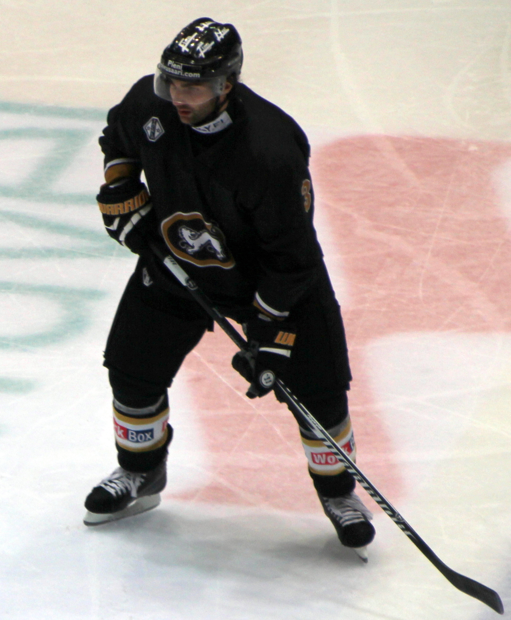 Dan Spang in 2014